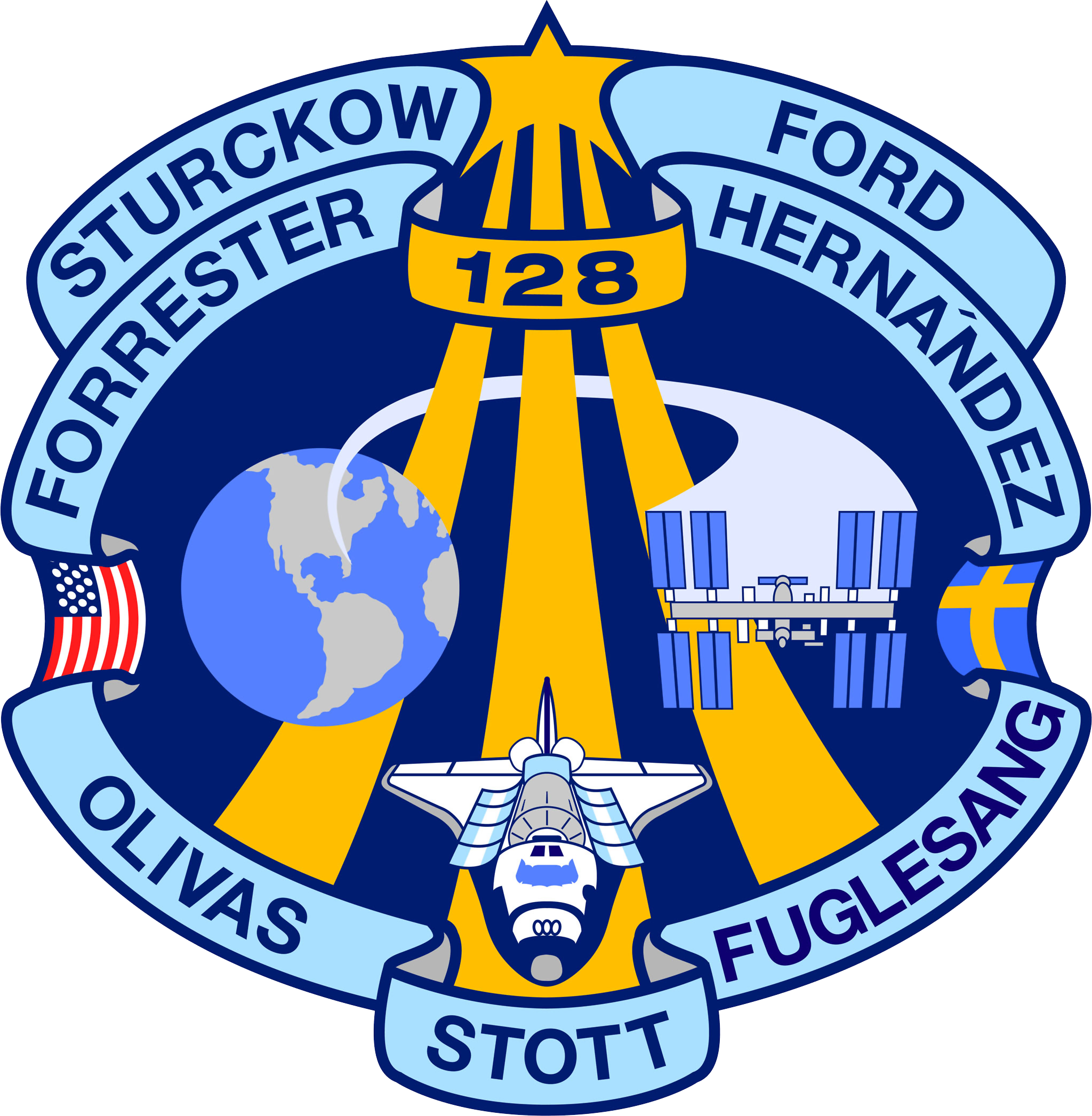 The STS-128 patch symbolizes the 17A mission and represents the hardware, people and partner nations that contribute to the flight. The Space Shuttle Discovery is shown in the orbit configuration with the Multi Purpose Logistics Module (MPLM) Leonardo in the payload bay. Earth and the International Space Station wrap around the Astronaut Office symbol reminding us of the continuous human presence in space. The names of the STS-128 crew members border the patch in an unfurled manner. Included in the names is the expedition crew member who will launch on STS-128 and remain on board ISS, replacing another Expedition crew member who will return home with STS-128. The banner also completes the Astronaut Office symbol and contains the U.S. and Swedish flags representing the countries of the STS-128 crew.